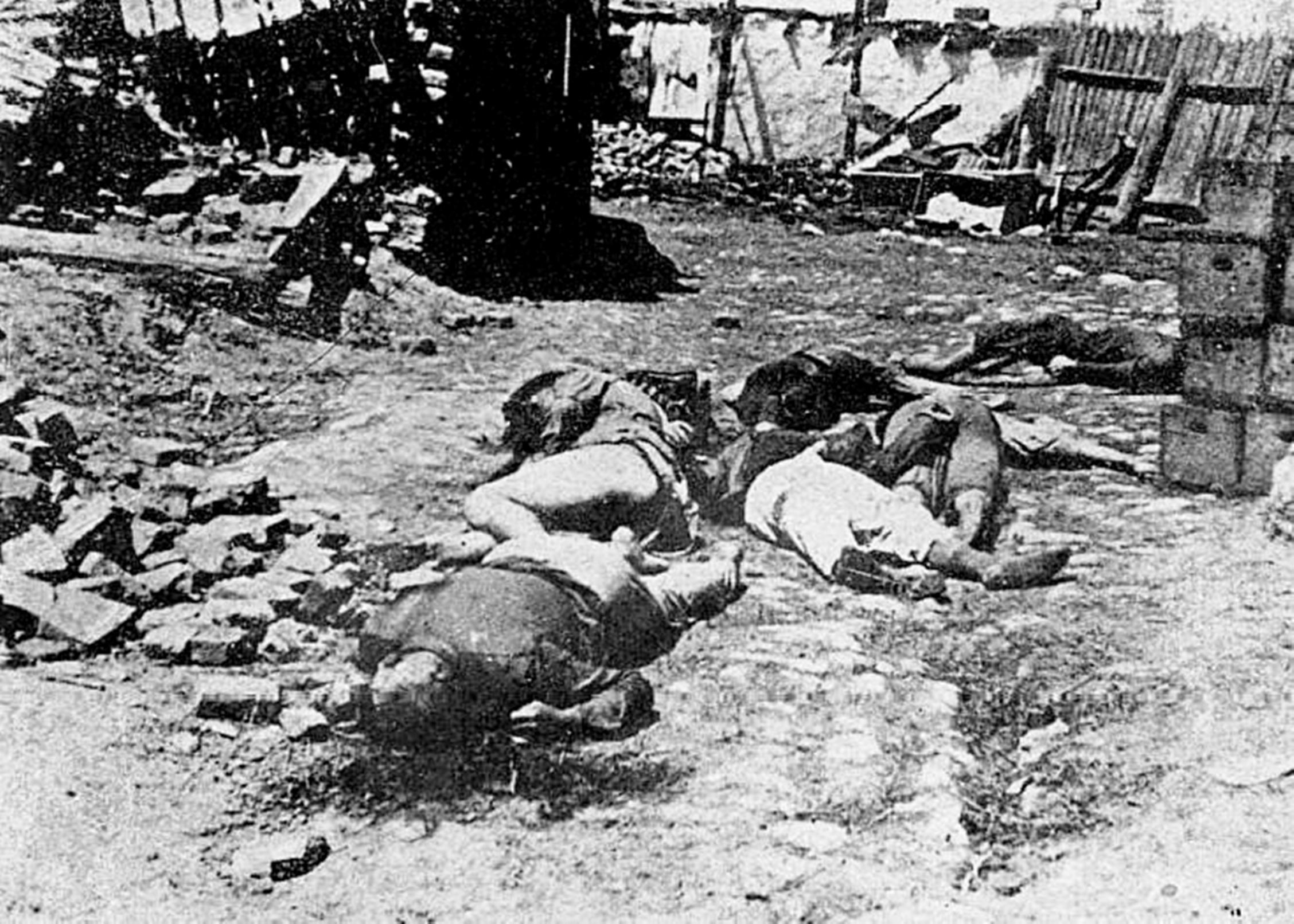 Jewish Romanian deportees, murdered by their Romanian escorts in Transnistria; one of several massacres carried out during the “Holocaust by bullets” phase of extermination behind the Eastern Front. Per the original caption, this particular crime was perpetrated ”between Brizula (Bârzula, Byrzula) and Grozdovca”, that is just outside Kotovsk, in modern Ukraine. This particular killing is also detailed by Carp on page 259 of his book, who attributes the random shootings within one convoy to a Romanian Army Sub-officer named Tarca; according to Carp’s notes on the same page, this was the first-ever convoy of Bessarabian Jews to reach Transnistria, having been made to walk the distance from the concentration camp of Vertiujeni. Information regarding decimation during this march also feature in the Final Report, English-language 2004 Polirom edition, p. 139.